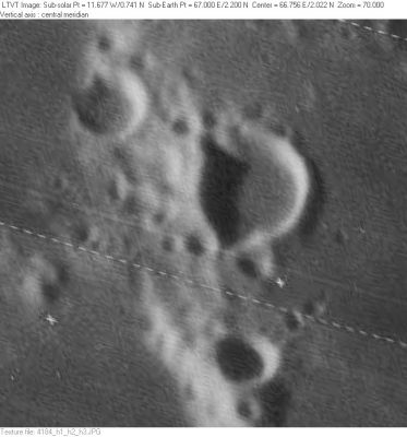 LO-IV-184H Stewart is to the right of center. 8-km Dubyago R is to its upper left; and 7-km Dubyago N is at the bottom.